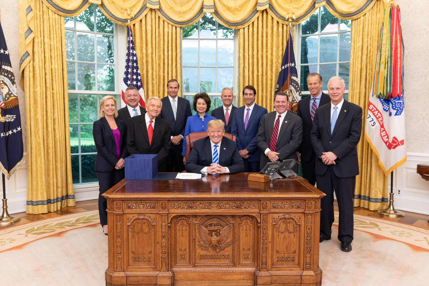 President Donald J. Trump poses with members of Congress and Cabinet members after signing H.R. 302, the FAA reauthorization Act of 2018, Friday, Oct. 5, 2018 in the Oval Office of the White House. (Official White House Photo by Joyce N. Boghosian)